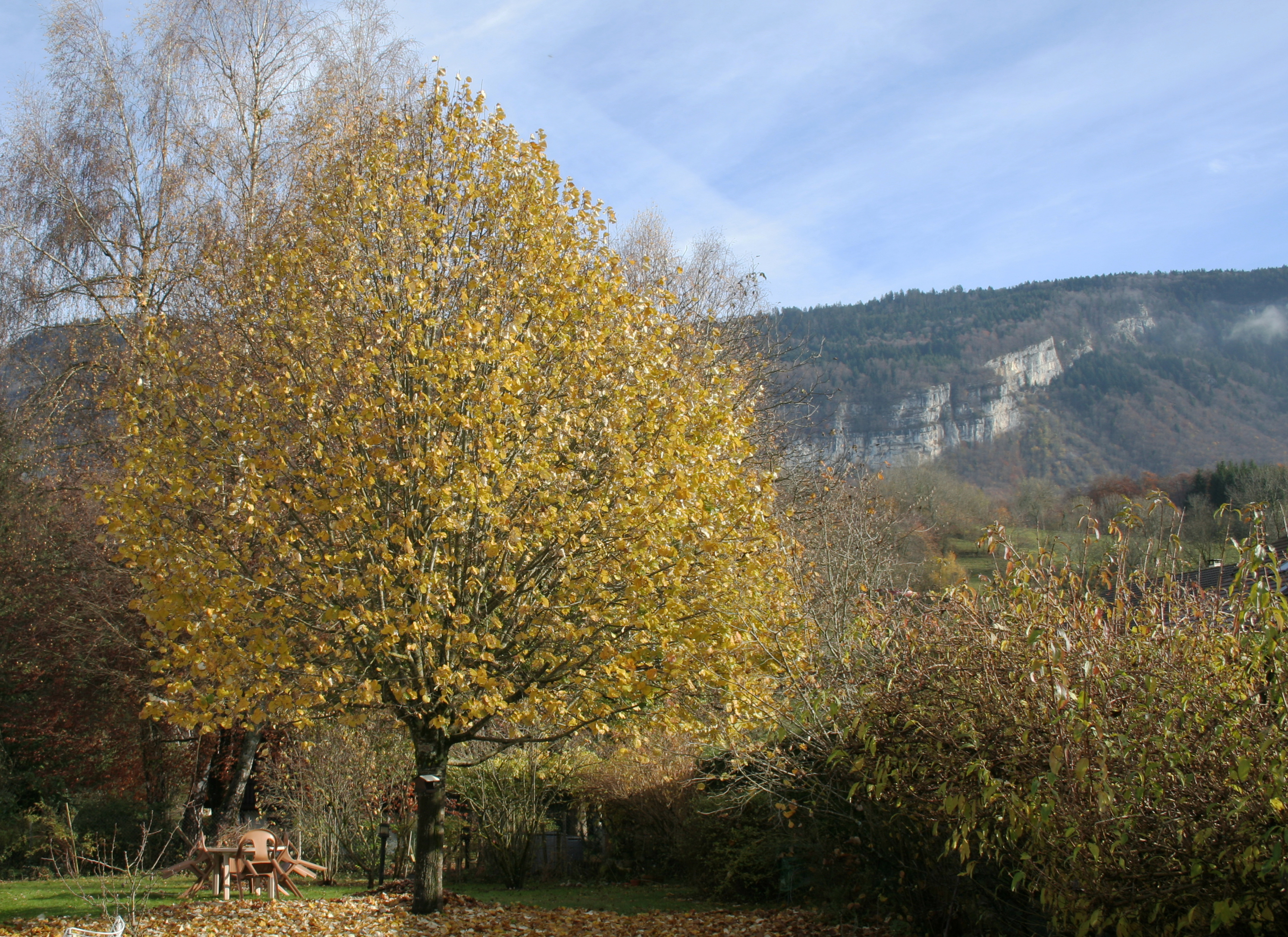 15 year old lime-tree (tilia cordata), Haute-Savoie, France.